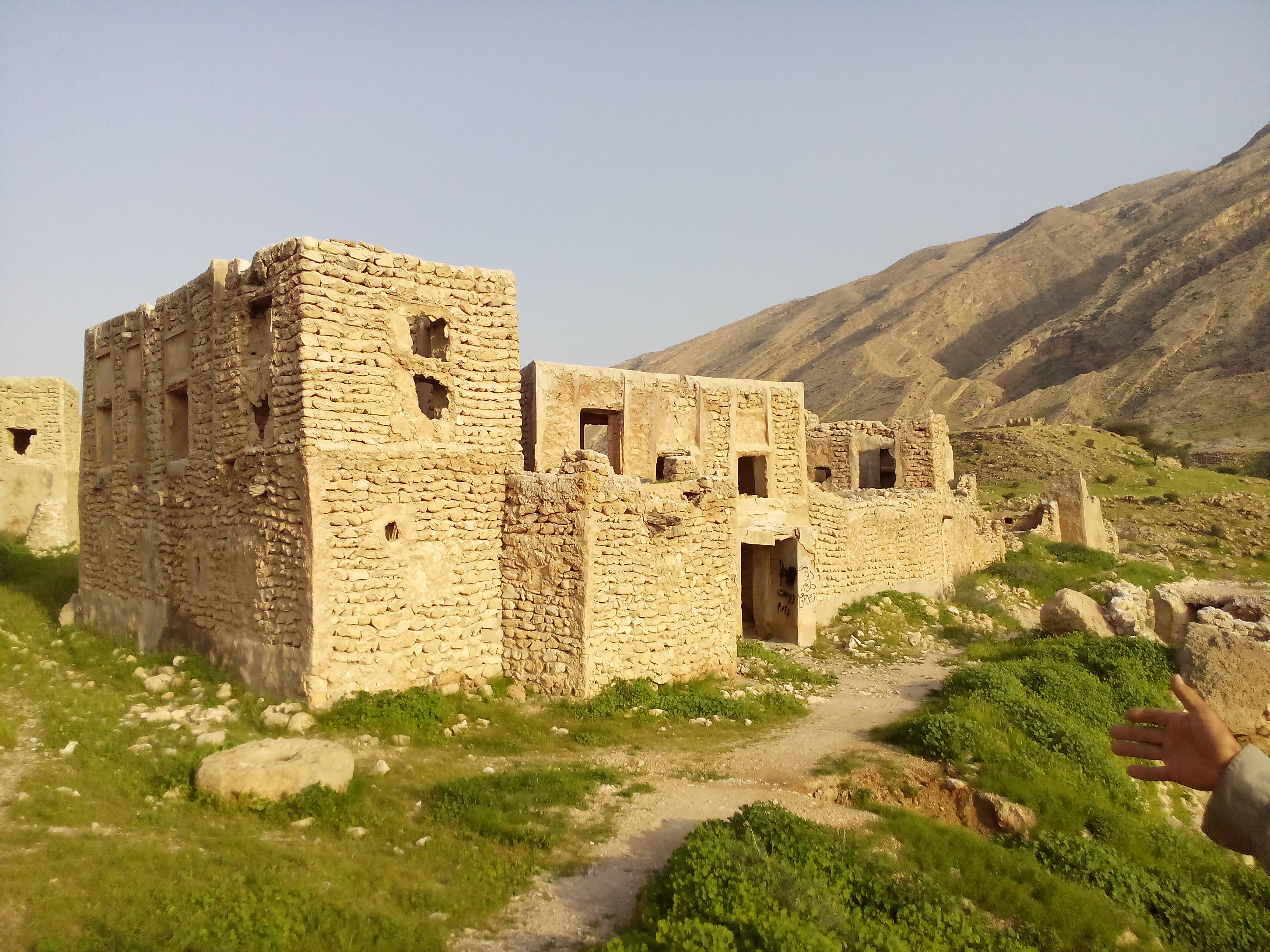 BasteQalat village